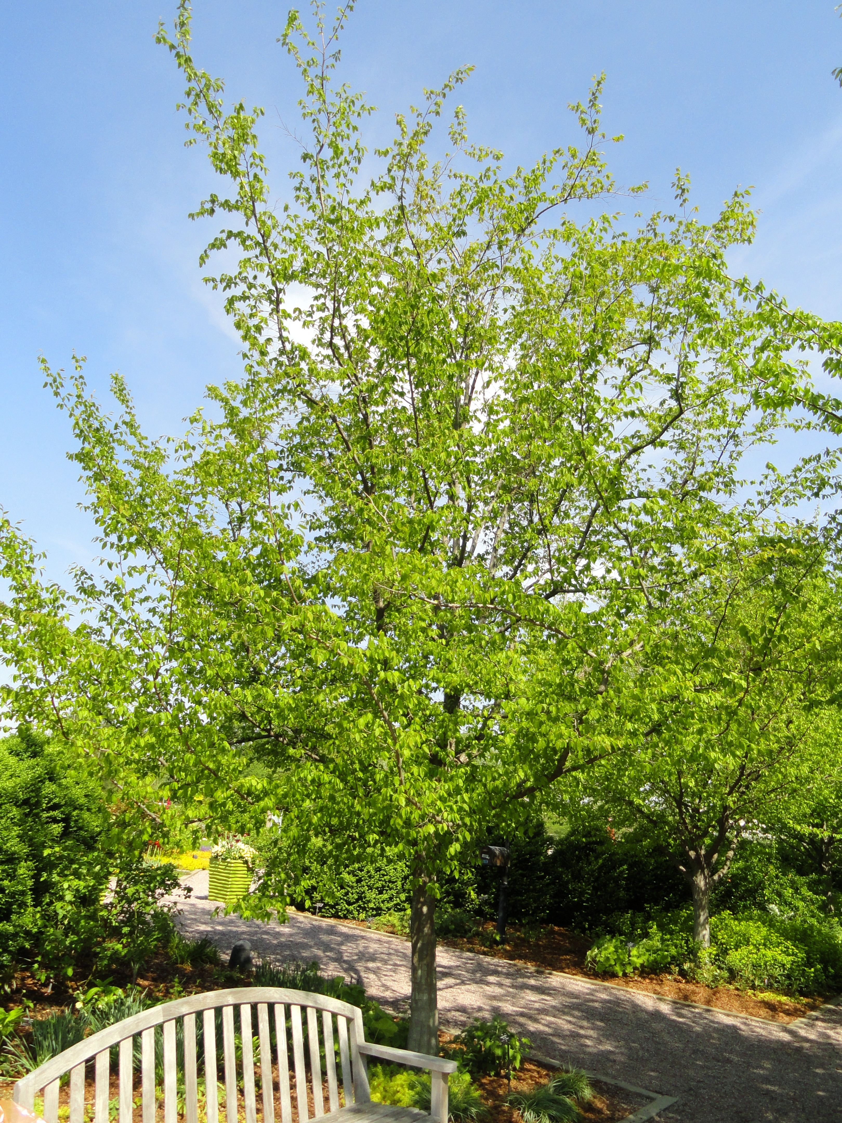 Carpinus caroliniana - United States Botanic Garden, Washington, DC, USA.